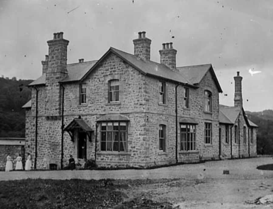 Dr Williams' School in 1876. Dr Williams' School was a school founded in Dolgellau in 1875. It opened its doors in 1878 and continued until it was closed in 1975.[1] Samuel Holland was actively involved in setting the school up and became its first Chairman of the Board of Governors.[1] The first head was Eliza Ann Fewings who lead the school for the first ten years.